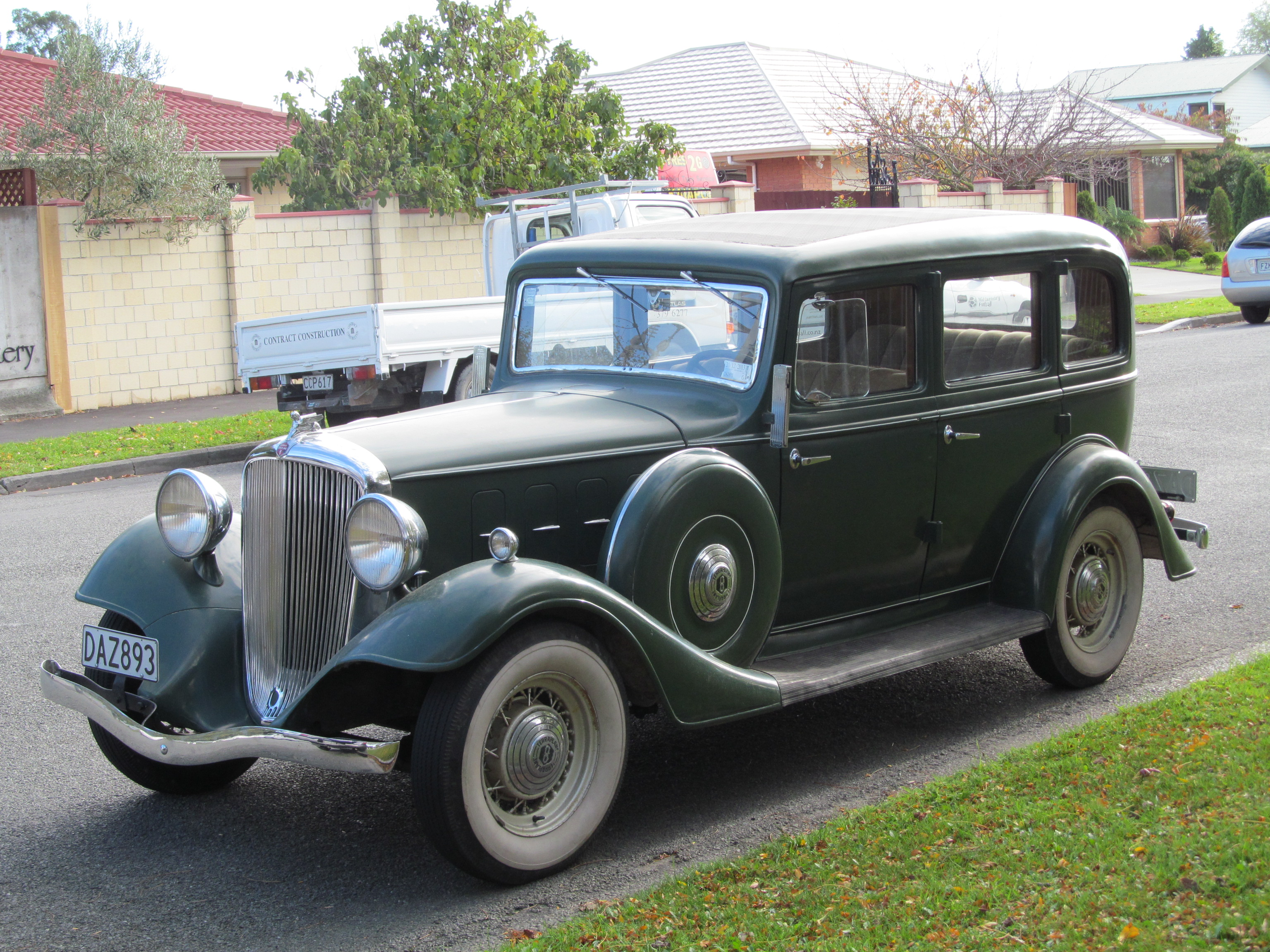 DAZ893 I couldn't believe my eyes when I saw this 80-year-old Essex just sitting on the street. What's more unusual is that it was only imported in 2005, from NORWAY of all places! If you don't believe me, check CarJam...